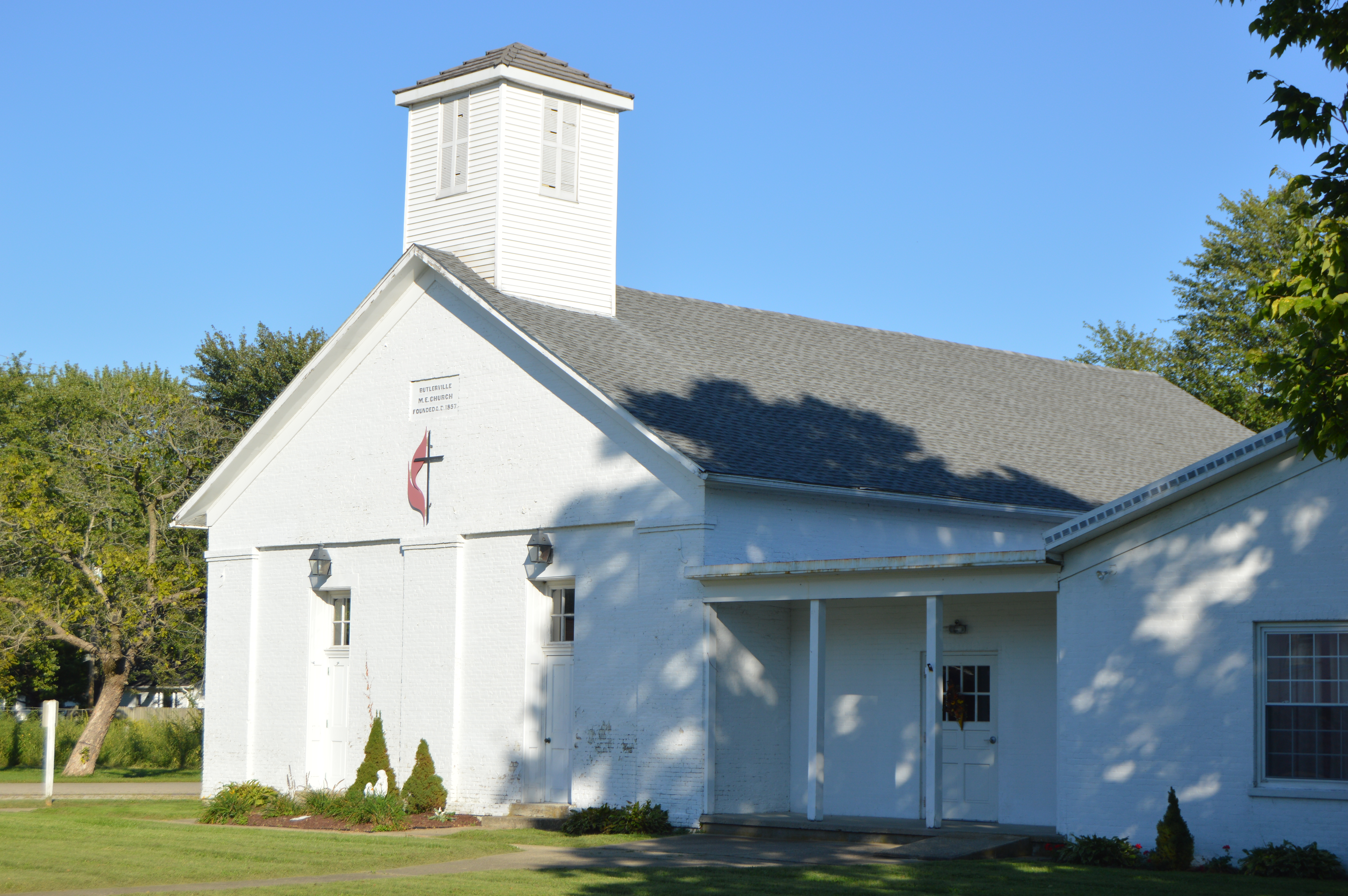 Front and southern side of the Butlerville United Methodist Church, located at 8494 Main Street (State Route 132) in Butlerville, Ohio, United States. It was built in 1857.